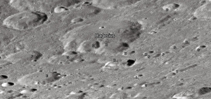 Hagecius lunar crater as seen from Earth with satellite craters labeled